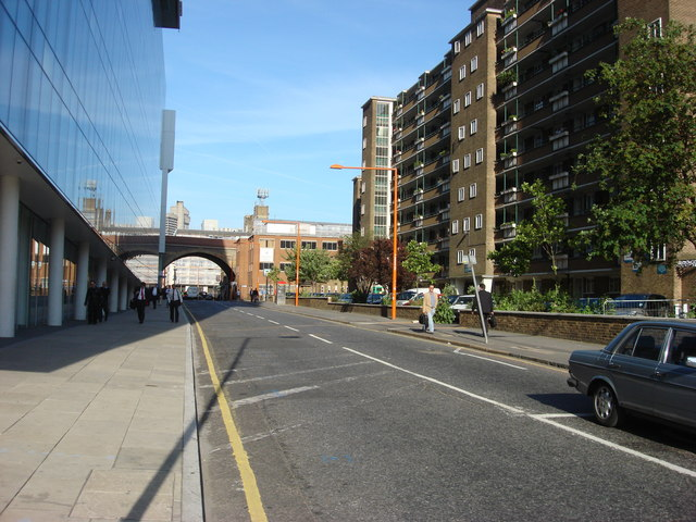 B300 Union Street